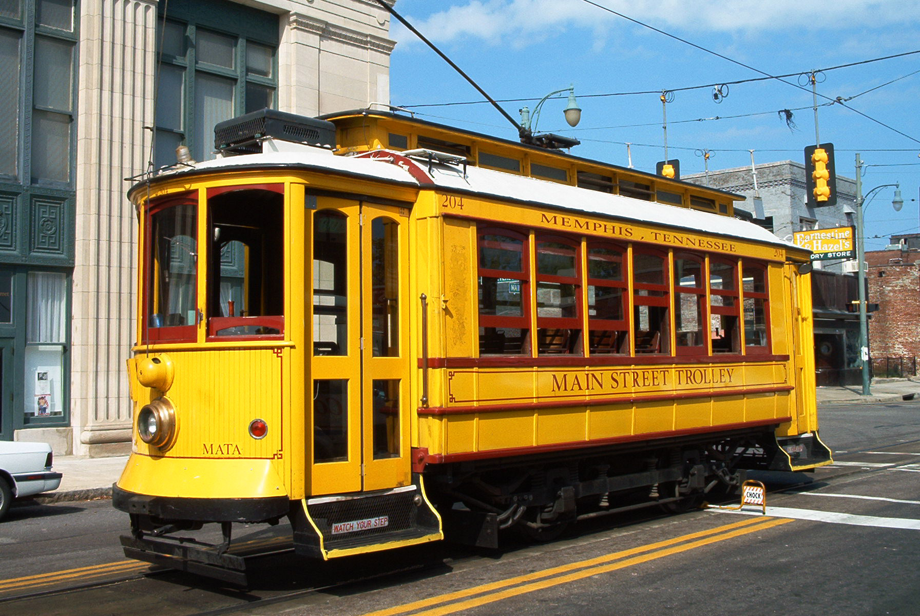 Vintage trolley—formerly of Porto, Portugal—on the Memphis Main Street trolley line. © Jeremy Atherton, 2003.